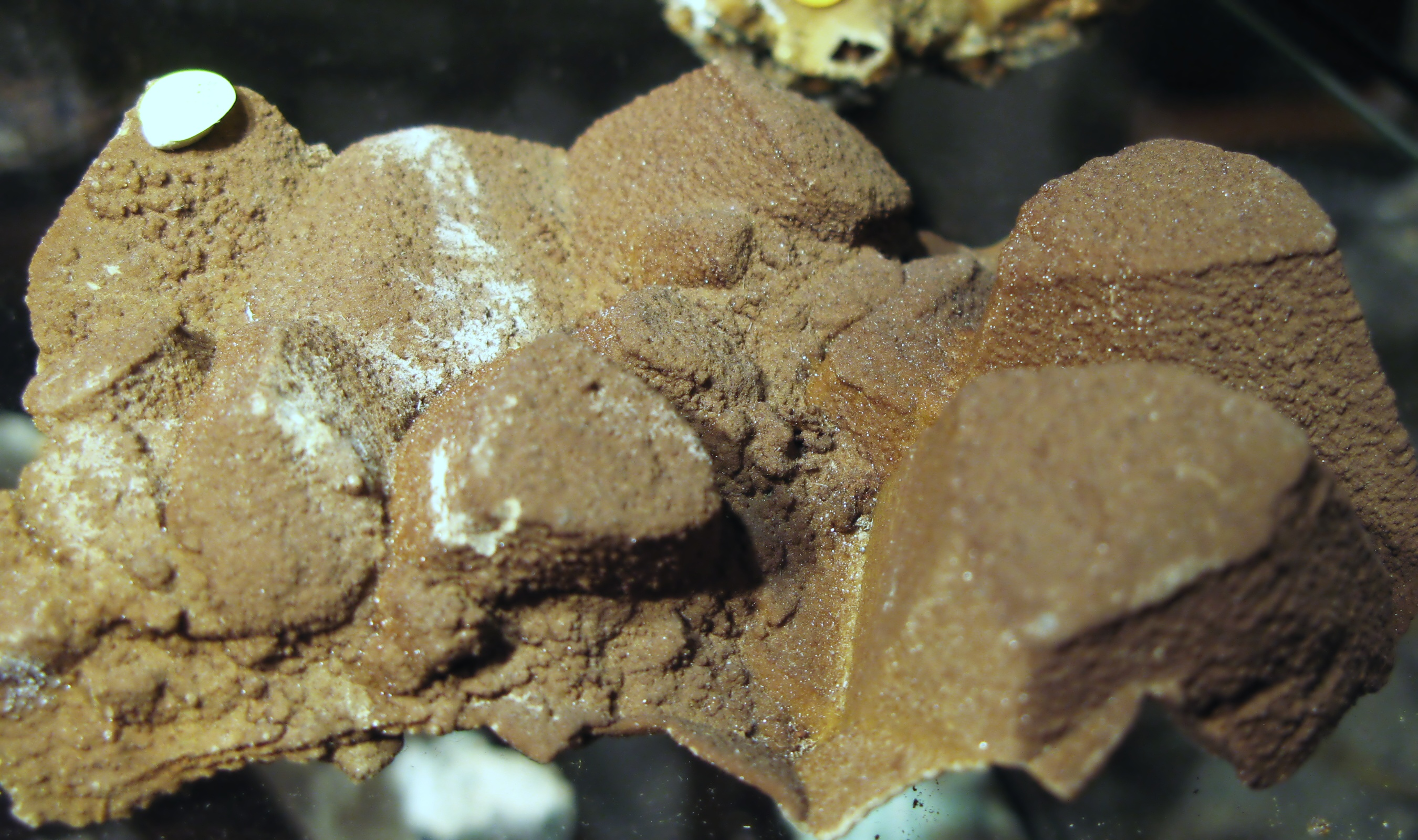 A perimorph of Calcite, Sphalerite, Siderite - picture taken on a mineral exchange Locality: Aggeneys, Orange River Area, South Africa